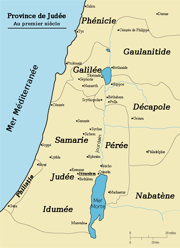 Iudaea Province in 1st century